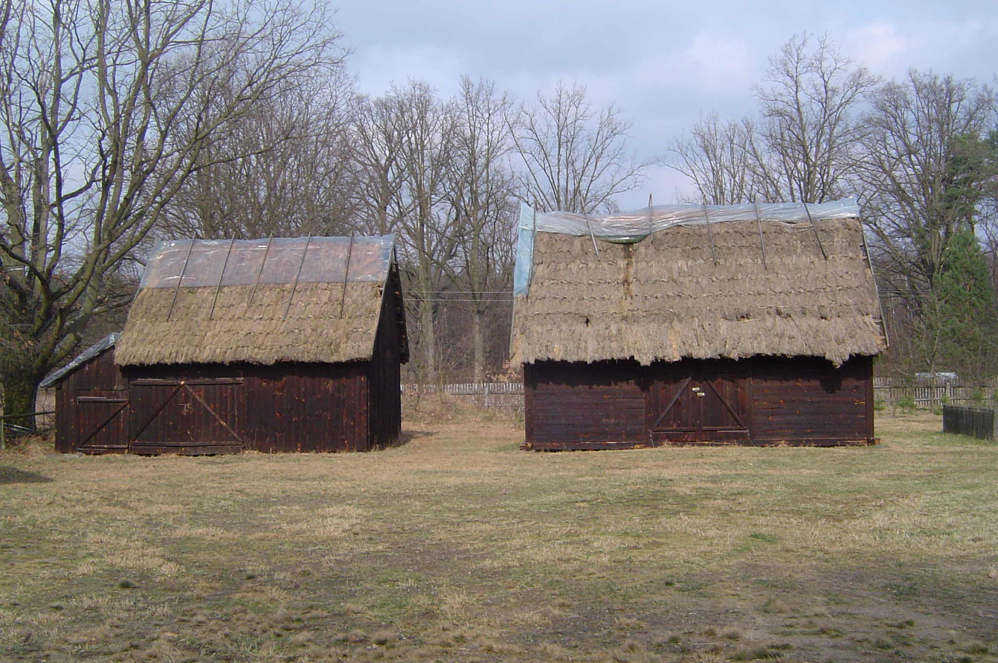 open air museum in Granica